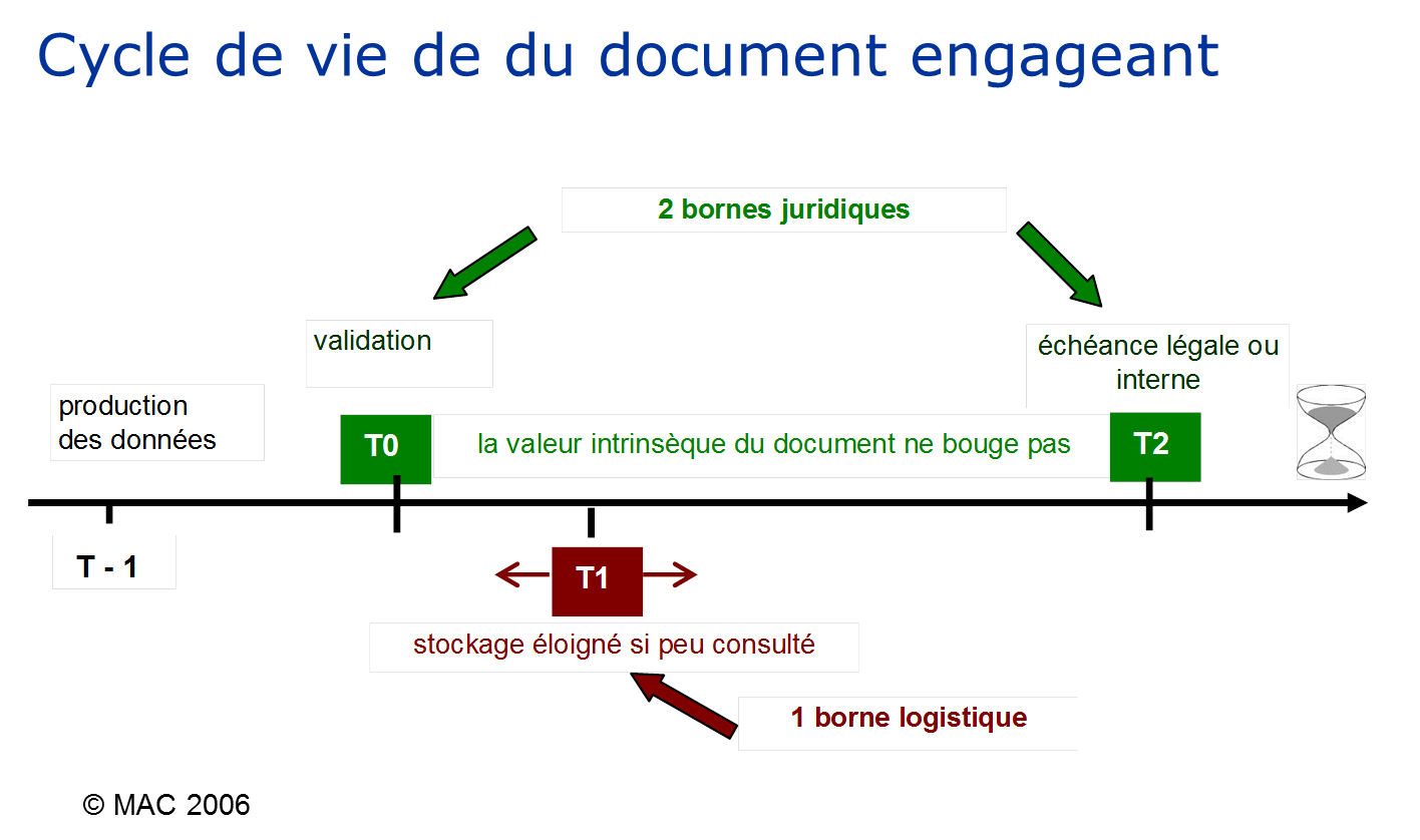 Schematic description of the record life cycle with temporal and logical milestonesUnknownUnknown schéma décrivant le cycle de vie du document avec des bornes temporelles et logiques